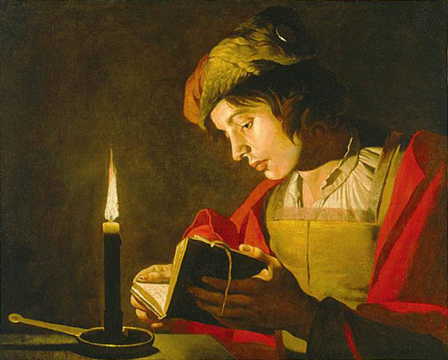 Young man reading by candlelightlabel QS:Lsv,"Ung man läsande vid vaxljus" label QS:Len,"Young man reading by candlelight"